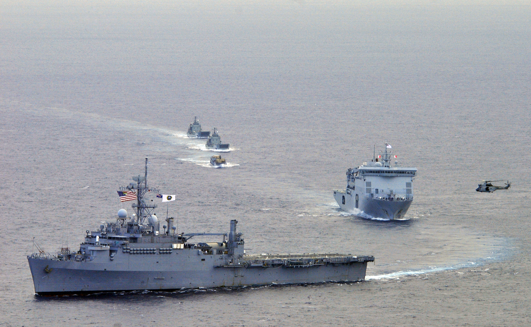 ESPIRITU SANTO, Vanuatu (May 9, 2011) The amphibious transport dock ship USS Cleveland (LPD 7) leads the Royal New Zealand Navy multi-role vessel HMNZS Canterbury (L421), a French military Puma helicopter, Landing Craft Utility (LCU) 1665, and the Royal Australian Navy landing craft heavy HMAS Balikpapan (L 126) and HMAS Betano (L 133) during a transit of Segond Channel. Cleveland is participating in Pacific Partnership 2011, a five-month humanitarian assistance initiative that will visit Tonga, Vanuatu, Papua New Guinea, Timor Leste, and the Federated States of Micronesia. (U.S. Navy photo by Mass Communication Specialist 2nd Class Michael Russell/Released)